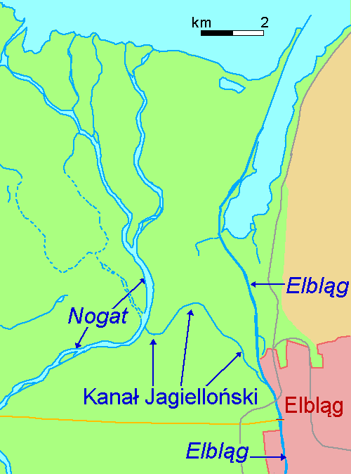 The Jagiellon Canal at the edge of the delta of river Vistula